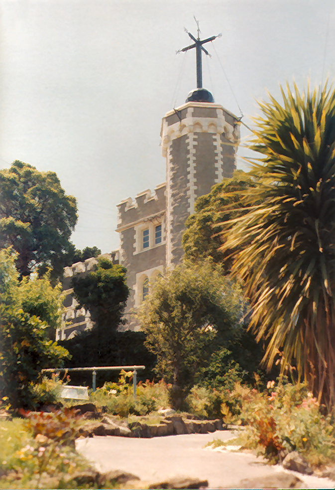 Local prisoners completed construction of the Port Lyttelton, timeball station in 1876. The station signaled Greenwich mean time to ships in the harbor.[1] Lyttelton's timeball was one of three in New Zealand. The others included Wellington (1864) and Dunedin (1868). The station discontinued dropping the time signal after December 31, 1934. However, restoration of the property completed in 1978 eventually led to resuming the schedule of dropping the signal at 1p.m. daily.[2]